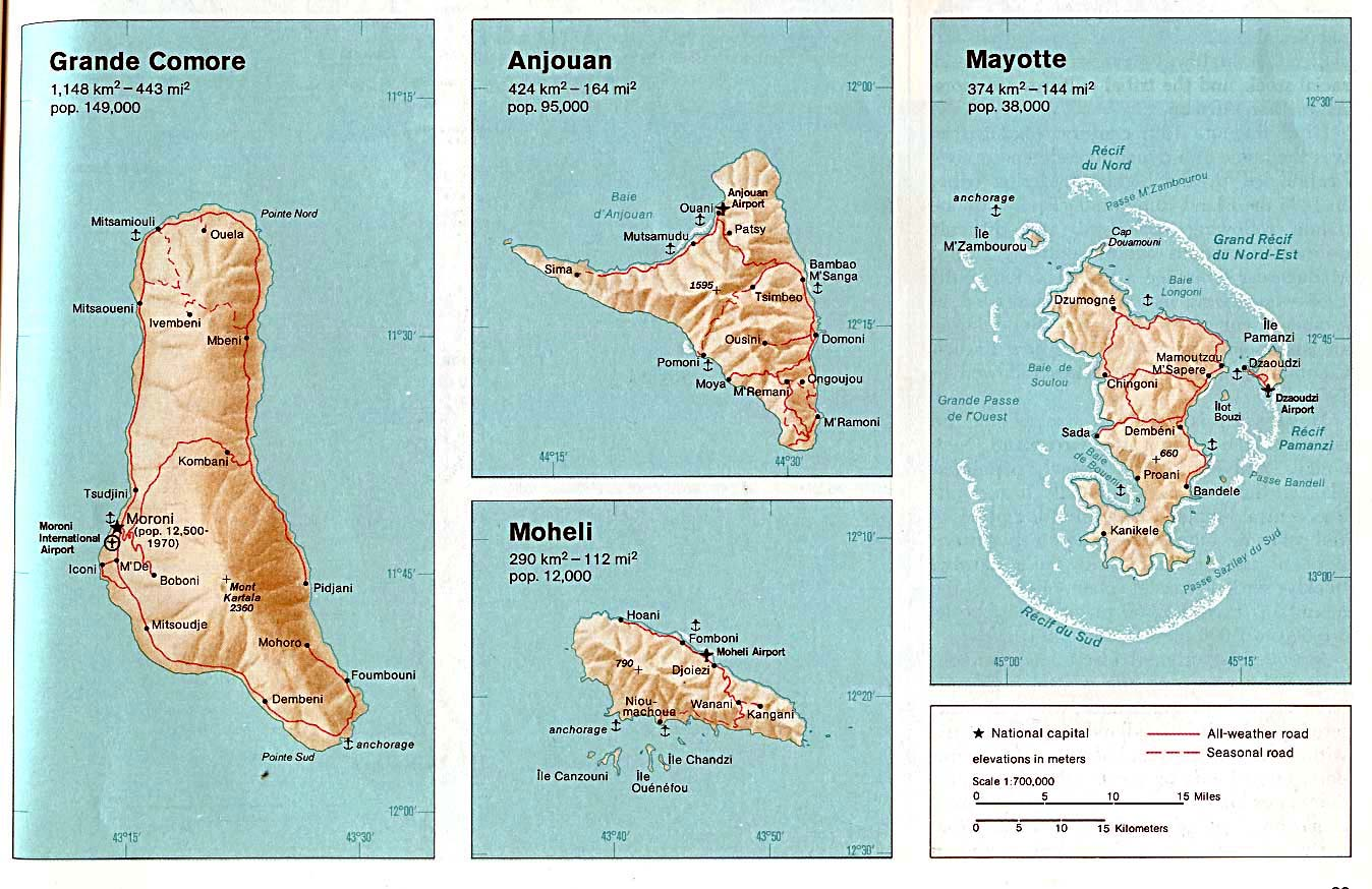 Country Map of Comoros (Grande Comore, Anjouan, Moheli, Mayotte). From The Indian Ocean Atlas, CIA, 1976.